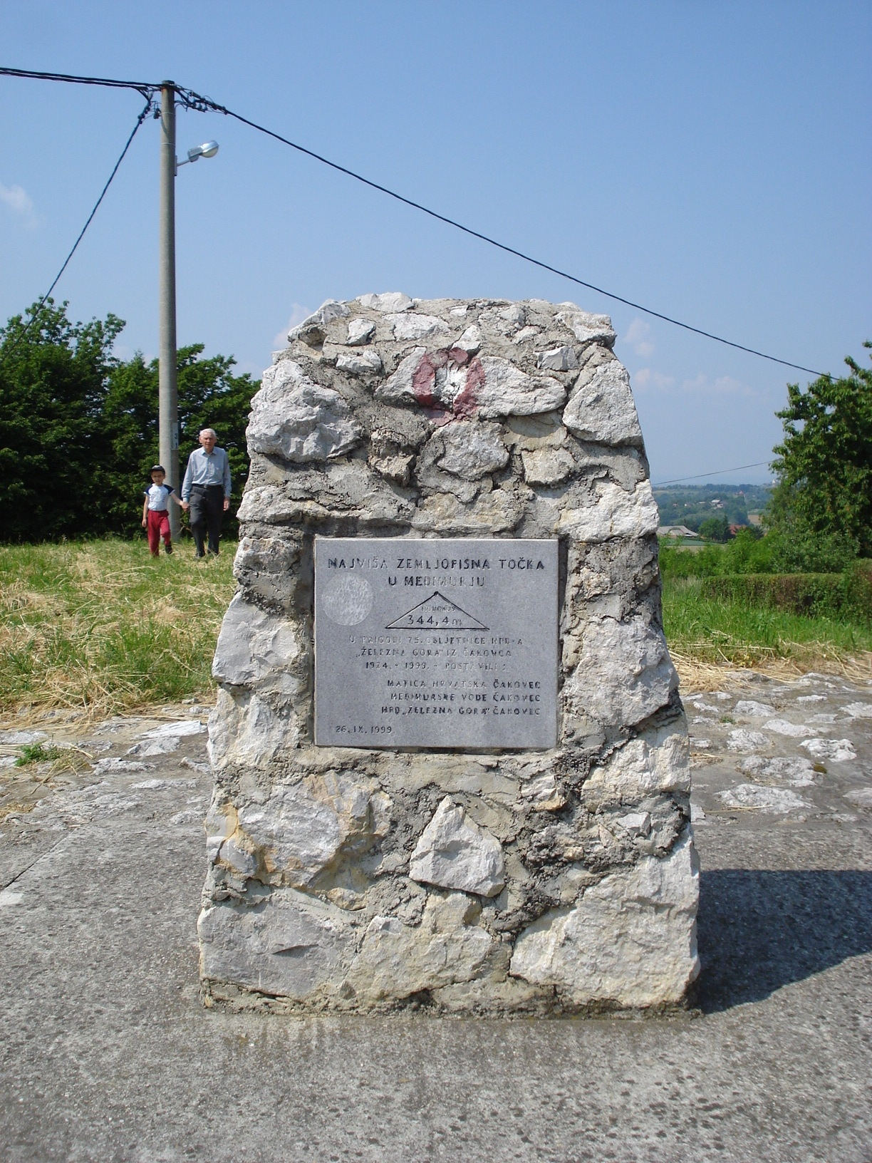 Mohokos - the highest peak of Medjimurje County, Croatia (344,4 m)